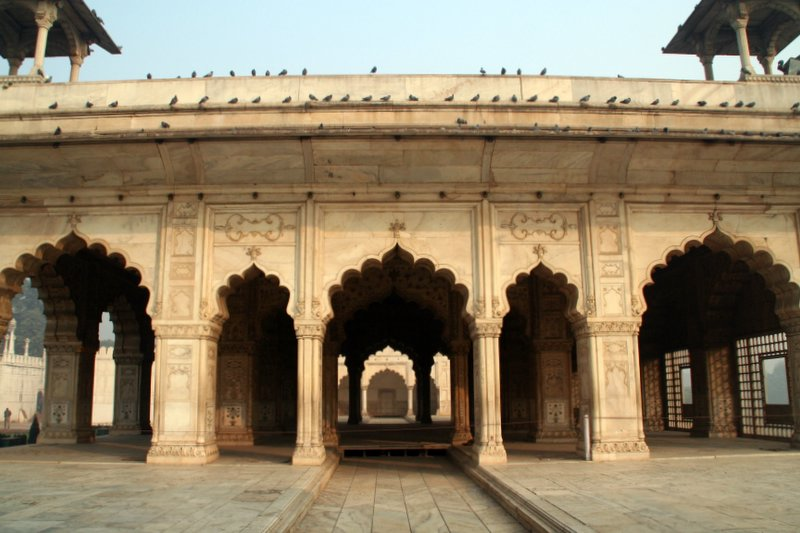 The Diwan I Khas (Hall of Private Audience) inside the Delhi Fort. Photo taken by Ian Sewell.